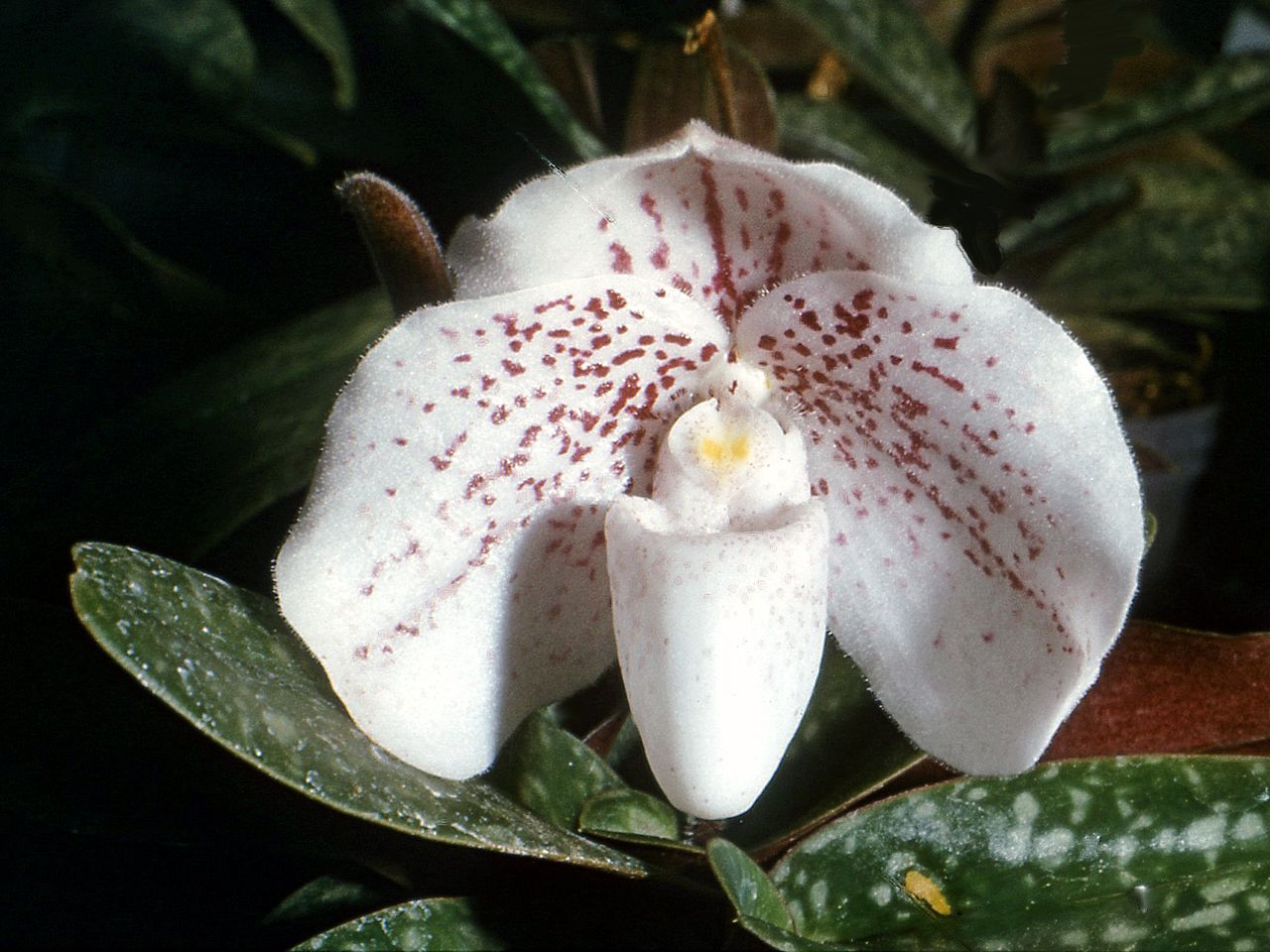 Paphiopedilum bellatulum - flower